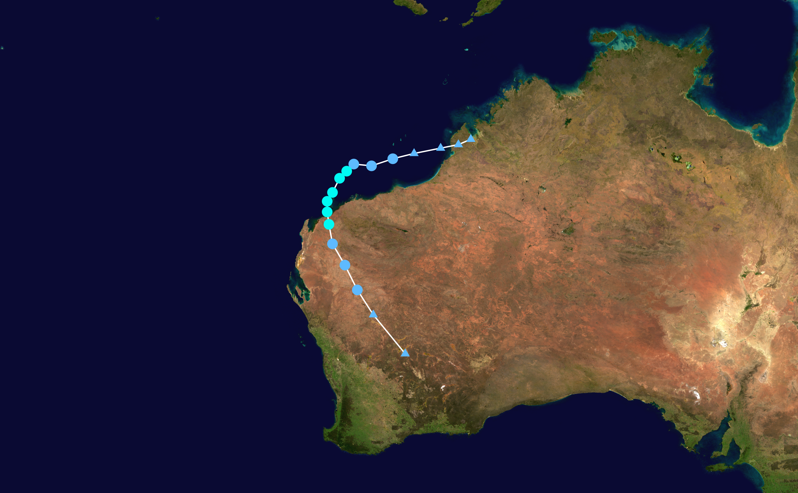 Track map of Tropical Cyclone Dominic of the 2008-09 Australian region cyclone season. The points show the location of the storm at 6-hour intervals. The colour represents the storm's maximum sustained wind speeds as classified in the Saffir–Simpson scale (see below), and the shape of the data points represent the nature of the storm, according to the legend below. Saffir–Simpson scale Tropical depression≤38 mph≤62 km/h Category 3111–129 mph178–208 km/h Tropical storm39–73 mph63–118 km/h Category 4130–156 mph209–251 km/h Category 174–95 mph119–153 km/h Category 5≥157 mph≥252 km/h Category 296–110 mph154–177 km/h Unknown Storm type Tropical cyclone Subtropical cyclone Extratropical cyclone / Remnant low / Tropical disturbance / Monsoon depression